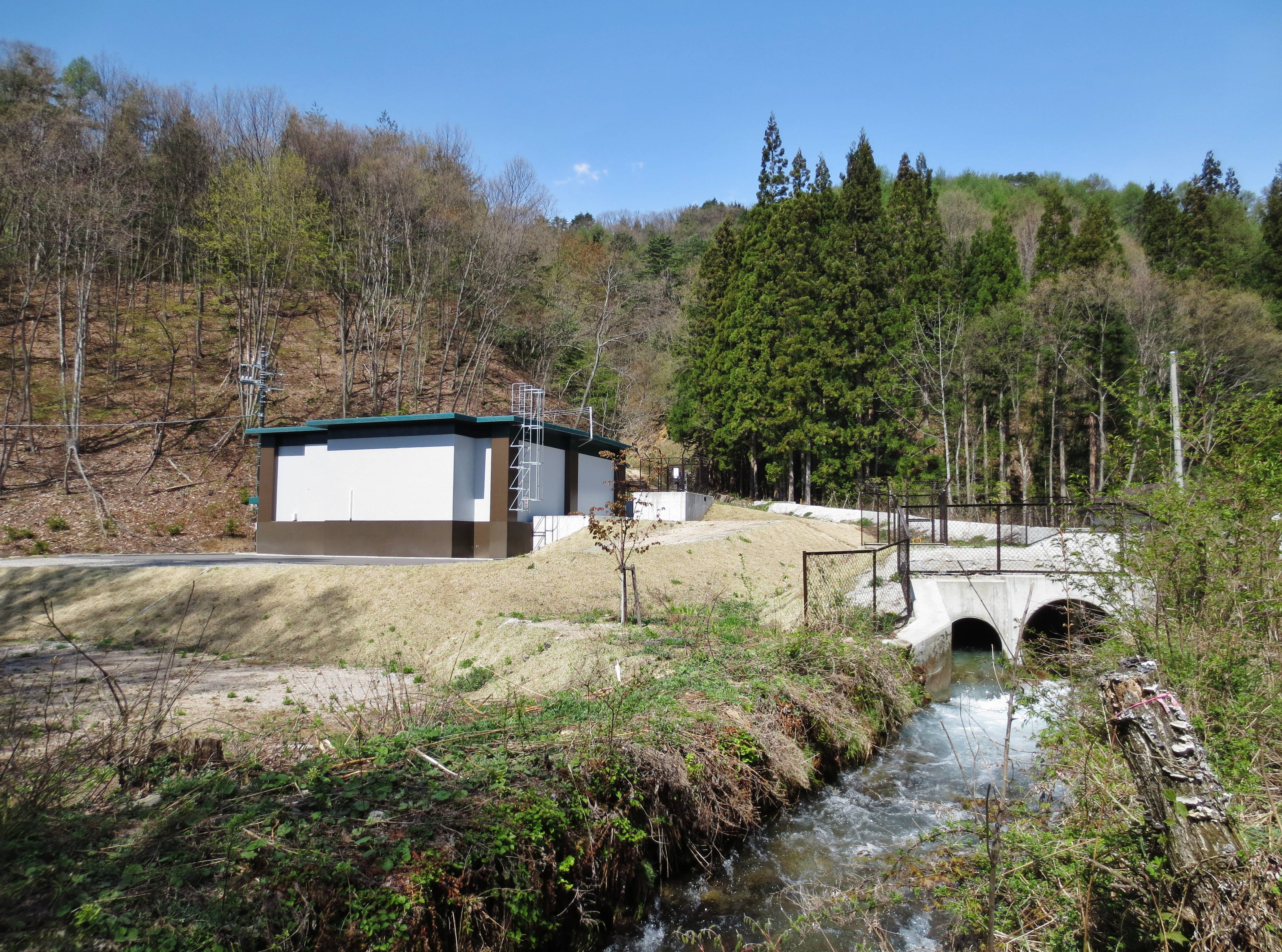 Ōmachi-Shinsegi Power Station.